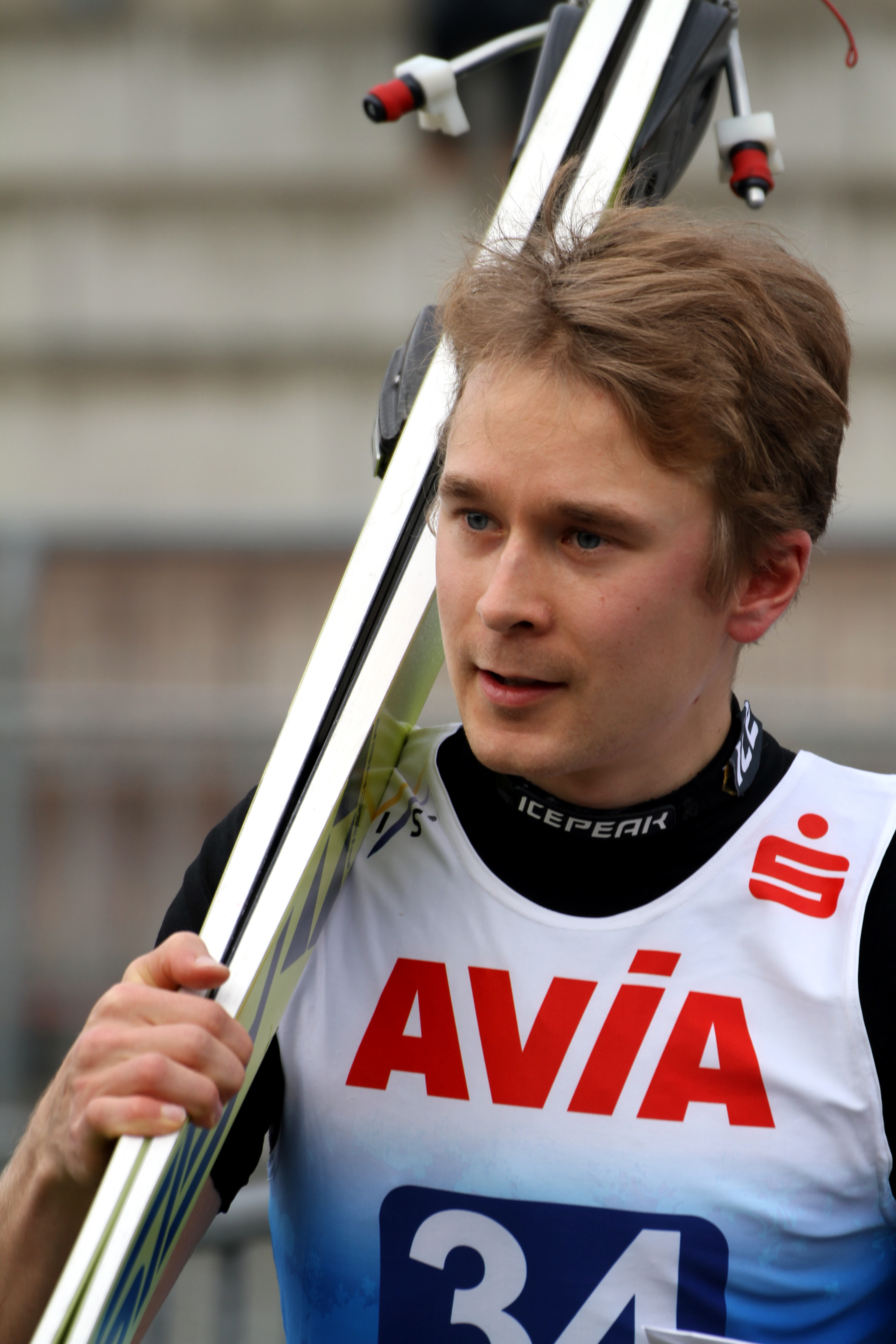 FIS Ski Jumping Summer Continental Cup Klingenthal 2017 Jarkko Määttä